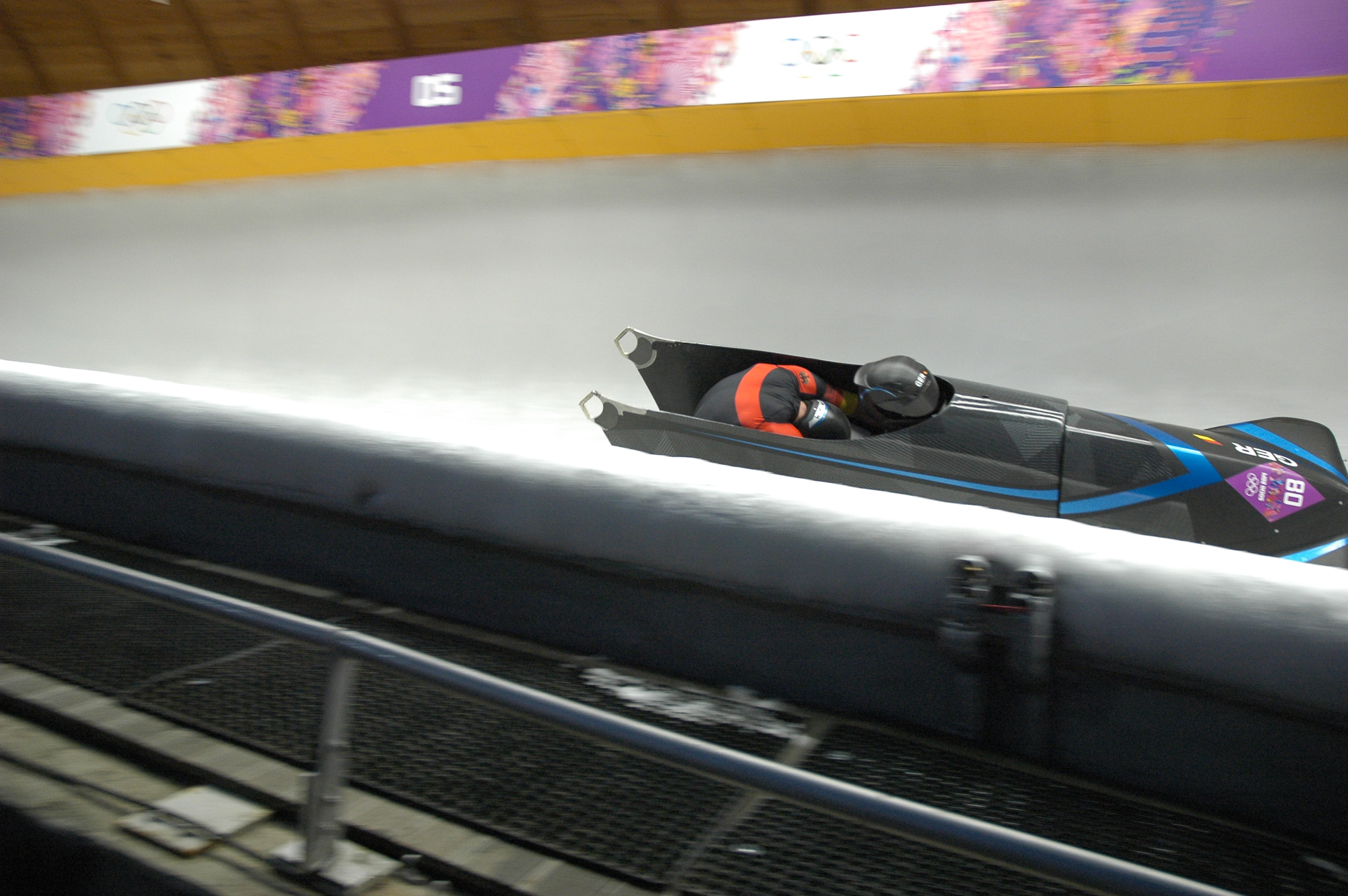 Two-man bobsleigh, 2014 Winter Olympics, Germany(08)